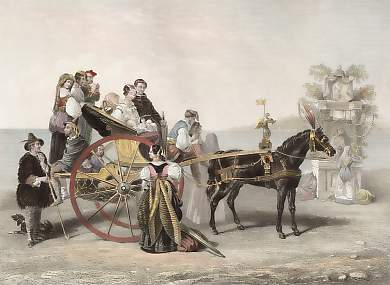 Calash in Naples (1850) : original steel engraving drawn by Peingret, engraved by W. French.